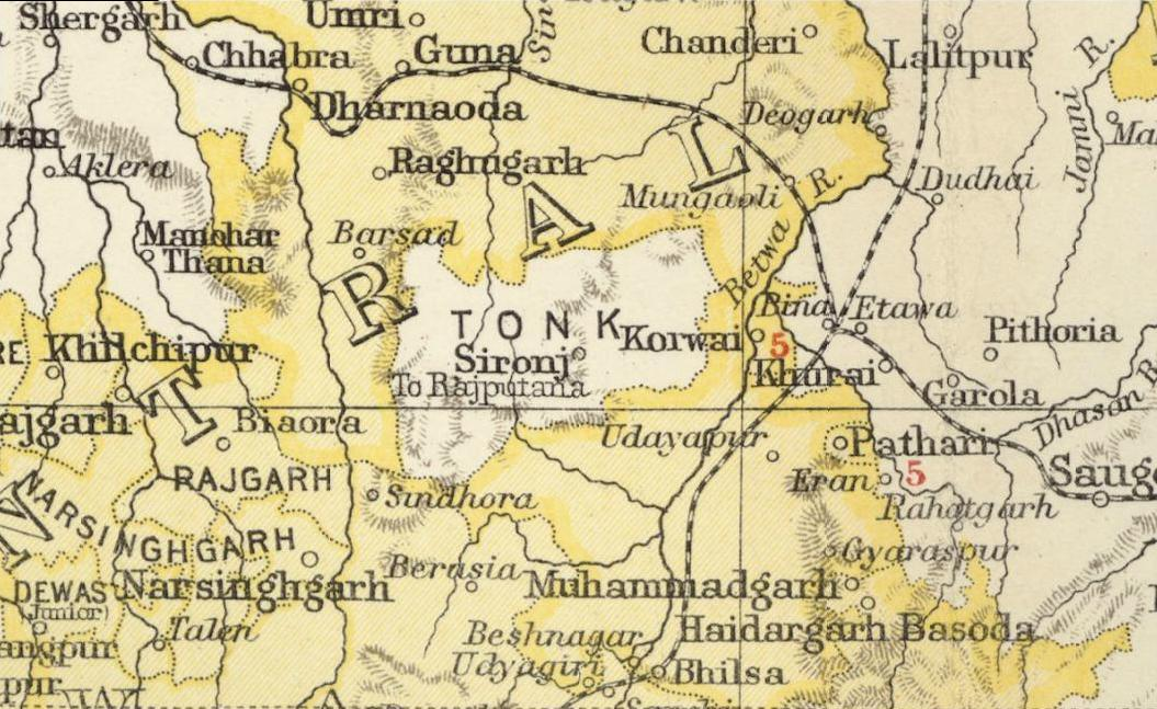 1909 Imperial Gazetteer of India Central India map section